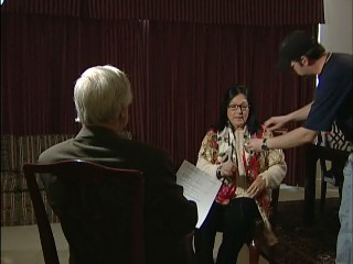 Setting up a bug mic on Nana Mouskouri. With Alex Reynolds.